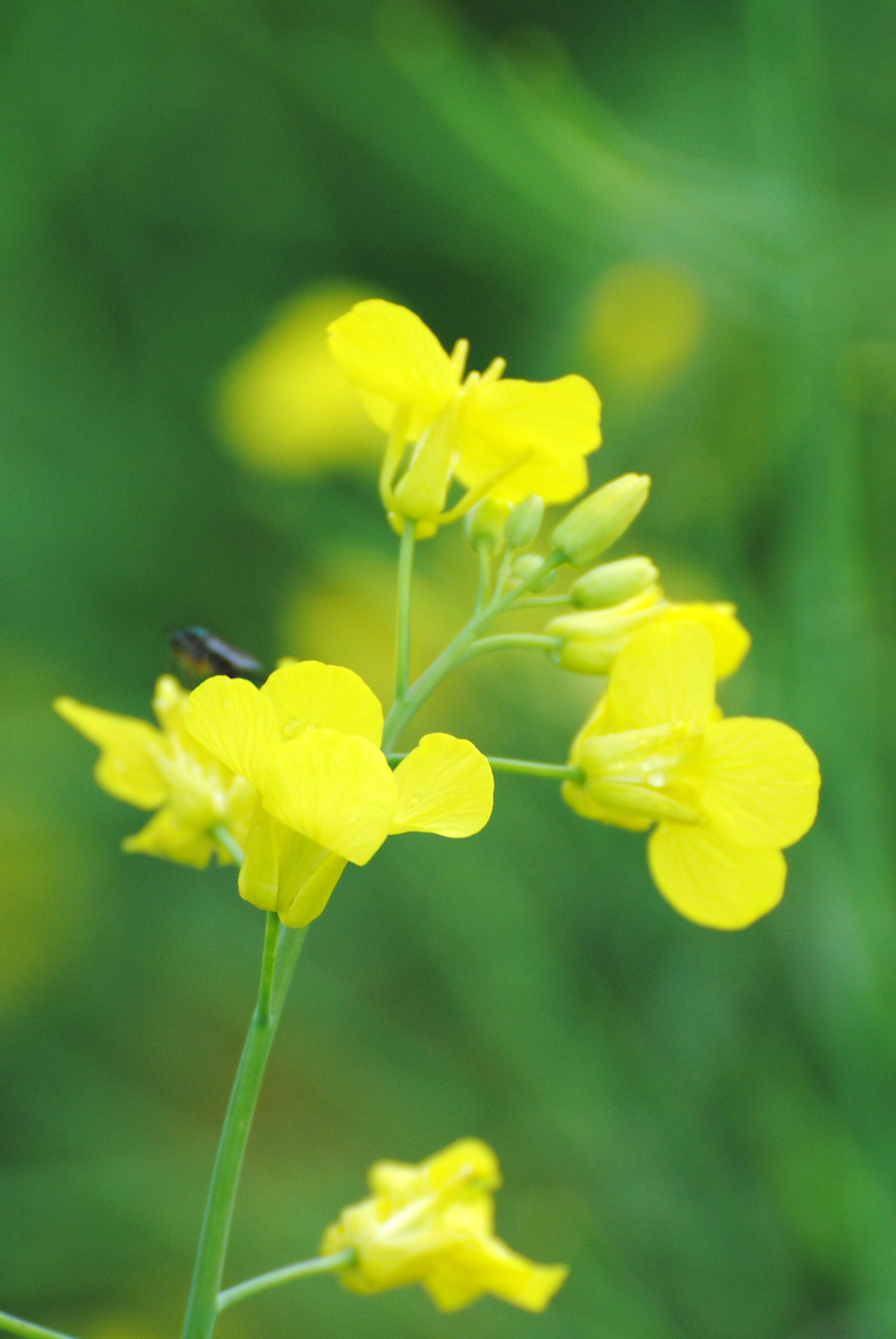 Close up of blooms on a canola plant near Yorkton, Saskatchewan.